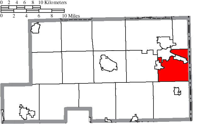 Map of the municipal and township boundaries of Mahoning County, Ohio, United States, as of the 2000 census, with the location of Poland Township highlighted. Township borders are shown only in unincorporated areas in order to differentiate incorporated and unincorporated areas more clearly.